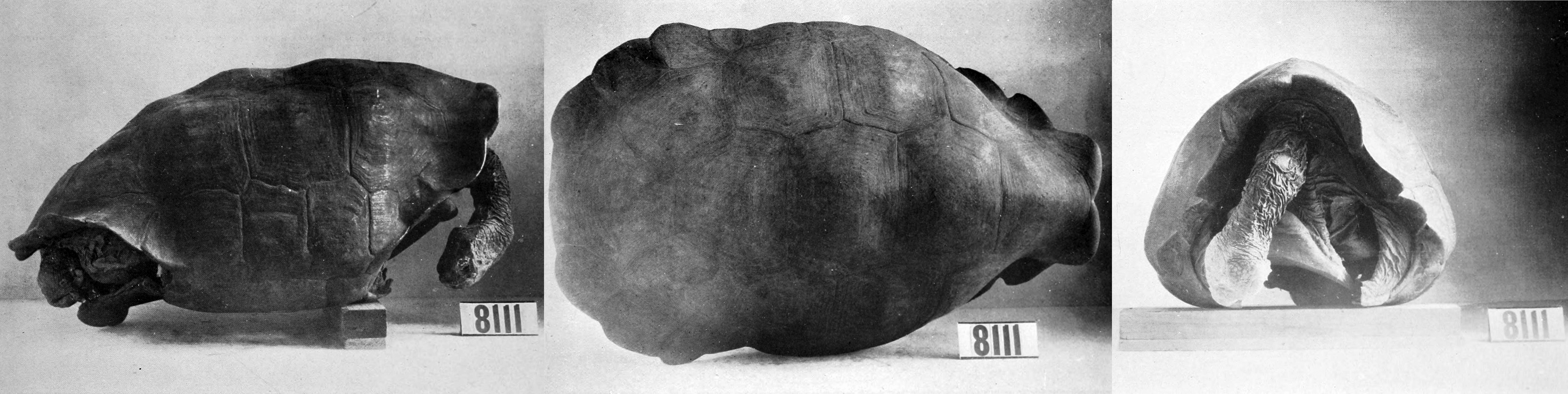 Pinta Island Giant Tortoise (Chelonoidis abingdonii), 35 inch male. Collected by W.H. Ochsner, 20 September 1906